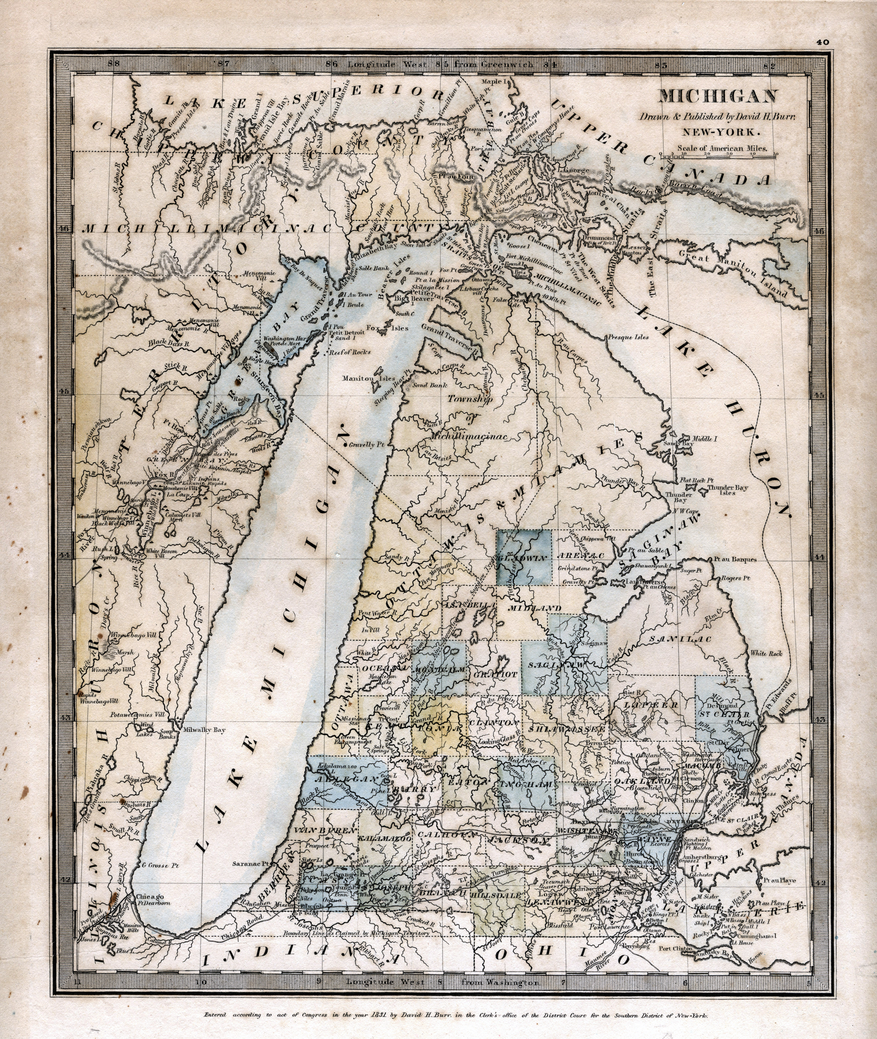 Map of Michigan counties while still a territory around 1831